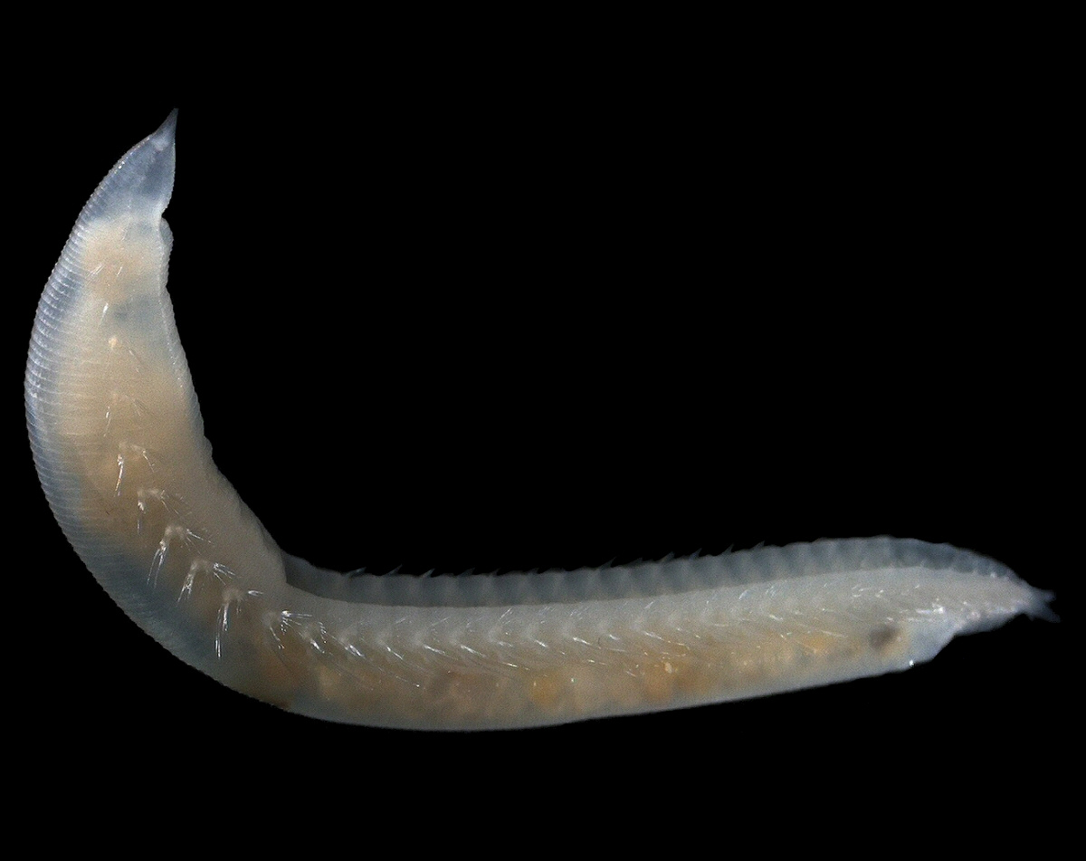 Polychaete from course sand, sampled on the Belgian continental shelf.